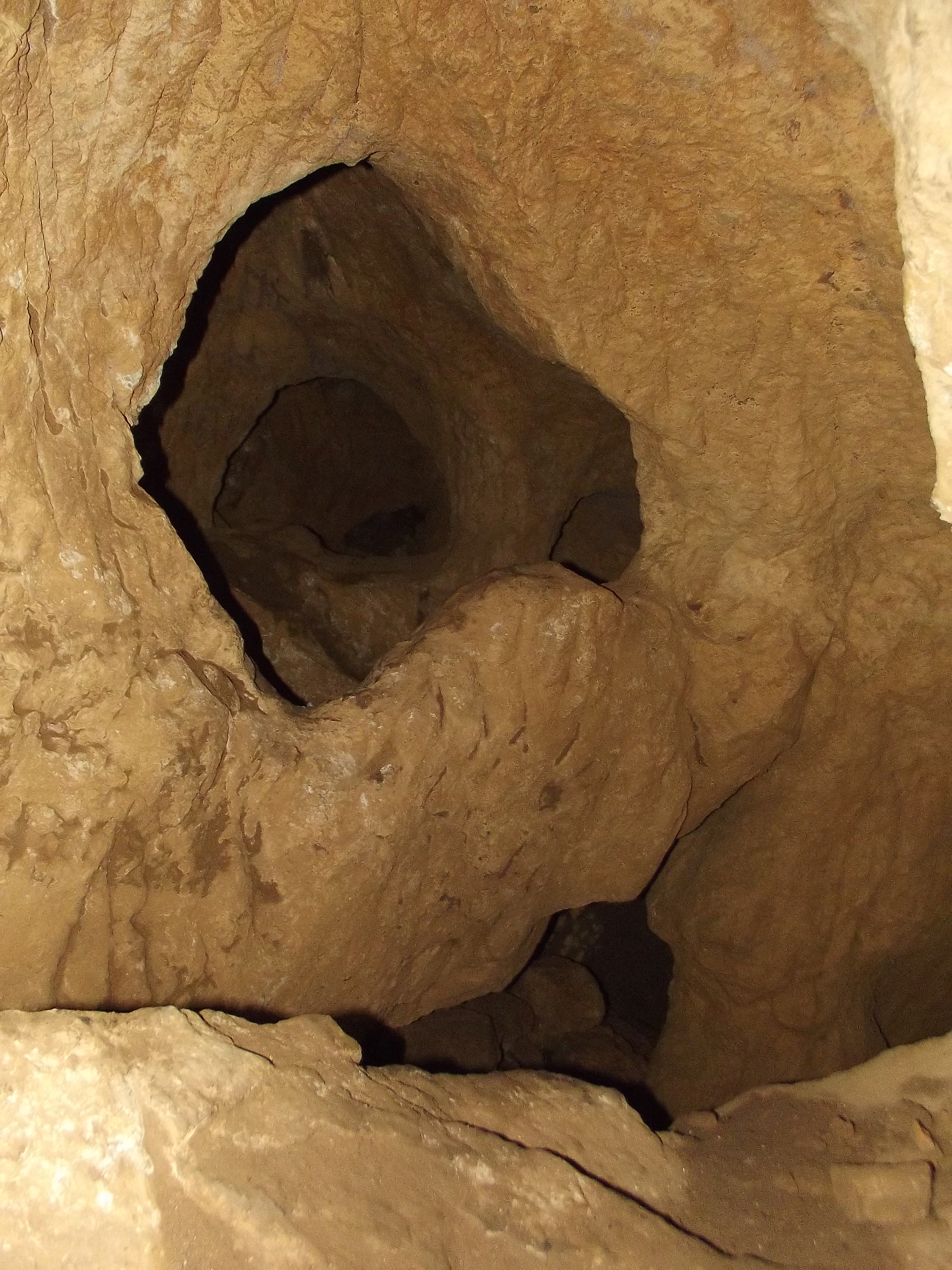 Le Goutil Copper mine in La Bastide-de-Sérou, Ariège, France.